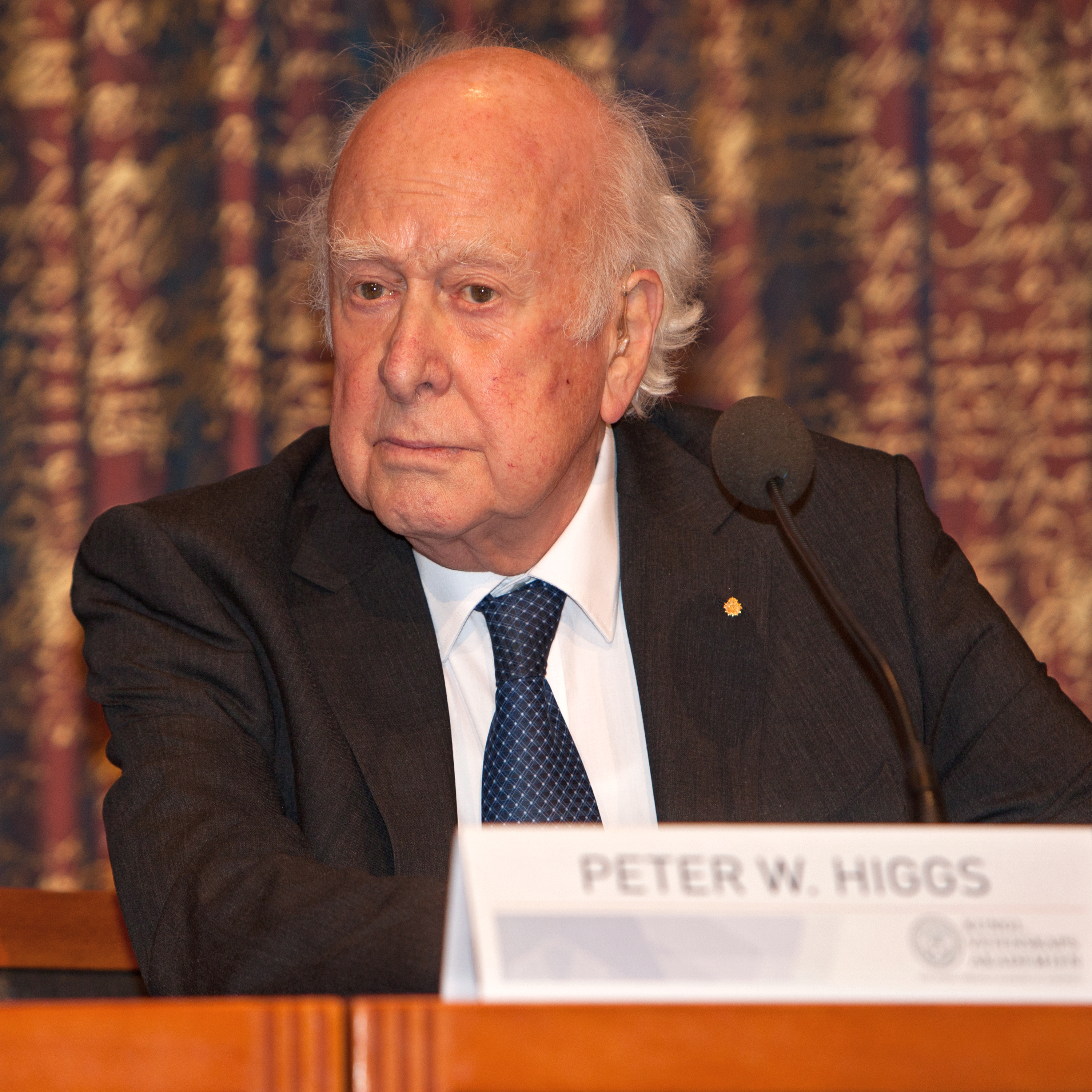 Nobel Laureates 2013 press conference at the Royal Swedish Academy of Sciences in December 2013